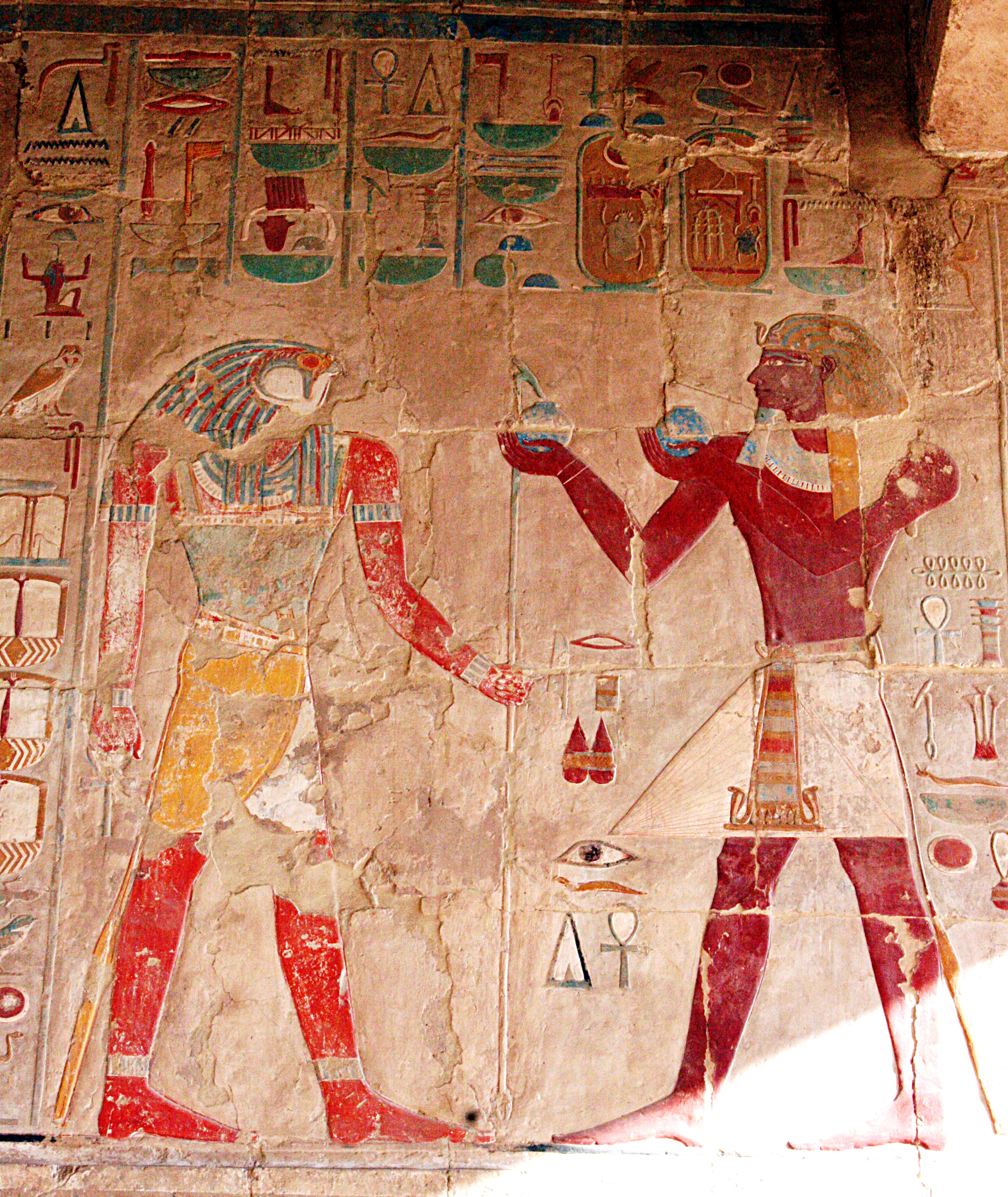 Deir el-Bahari, links Sokar, rechts Thutmosis III.